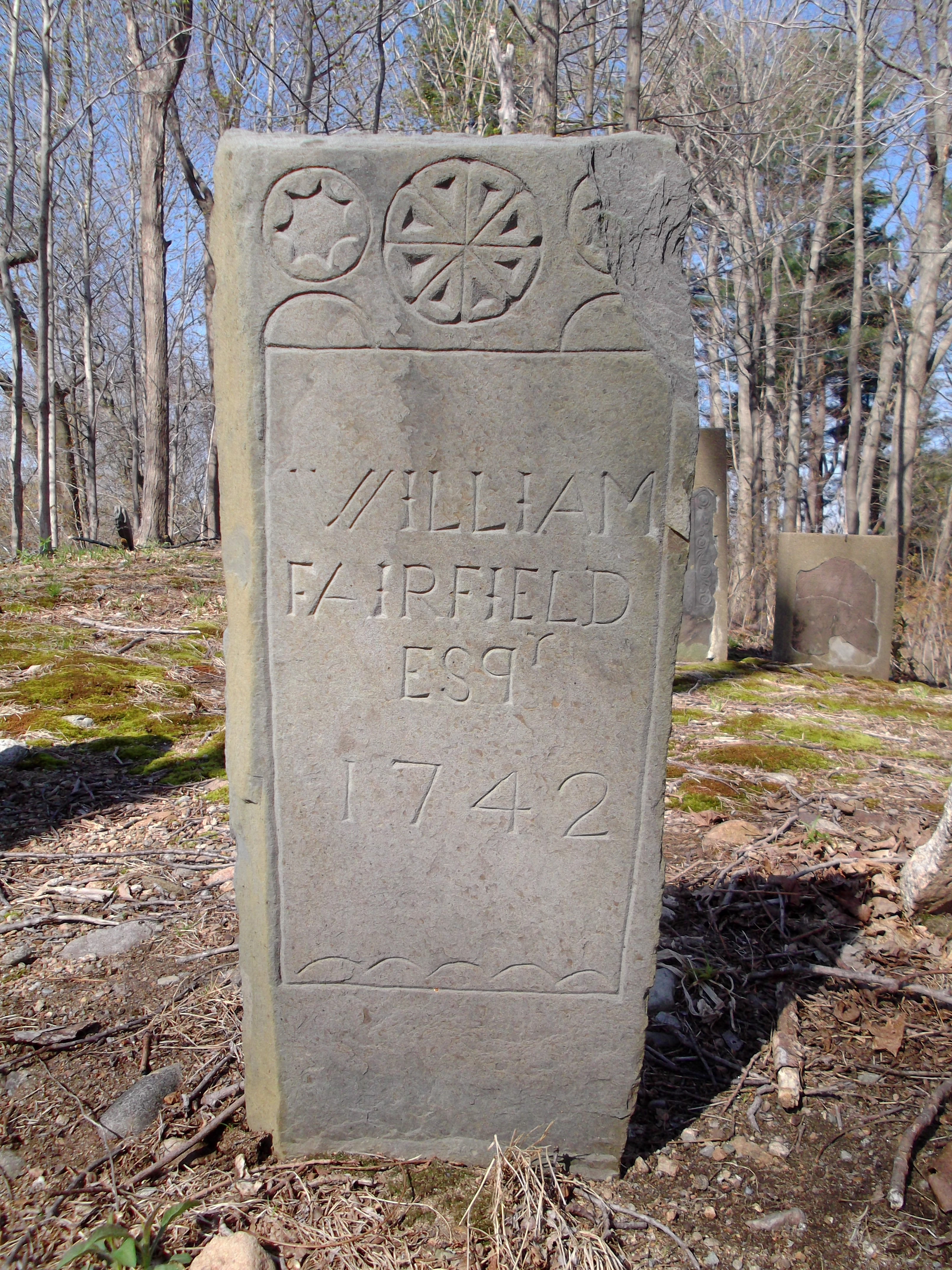 Secondary gravestone of William Fairfield, Fairfield Family Burial Ground, William Fairfield Drive, Wenham, MA